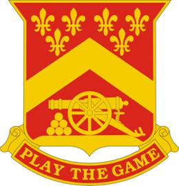 Distinctive Unit Insignia for the 103rd Field Artillery Regiment